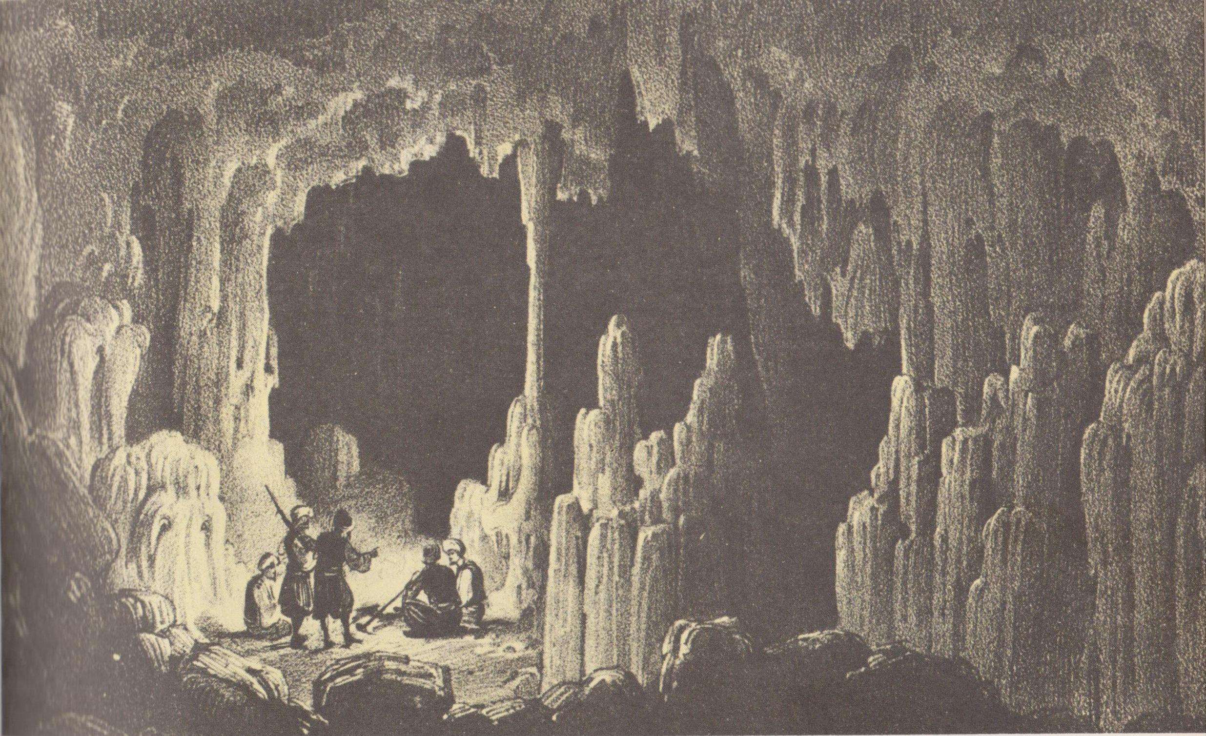 Cave of Gerospylos. Author Robert Rashley, from “Travel in Crete”, London 1837. Scanned from edition “Δημήτρης Φωτιάδης, Η Επανάσταση του 1821, τομ. ‘Β, σελ. 410, εκδ. Μέλισσα 1971”.